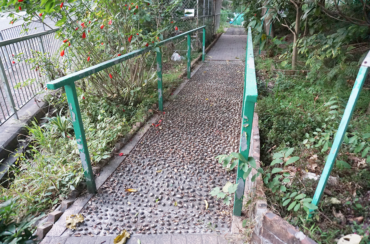 Tin Ma Court in Chuk Yuen, Hong Kong.